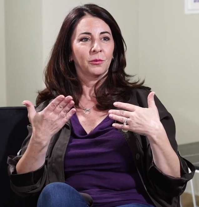 Michelle Ruff talking about her role of Luna in Sailor Moon